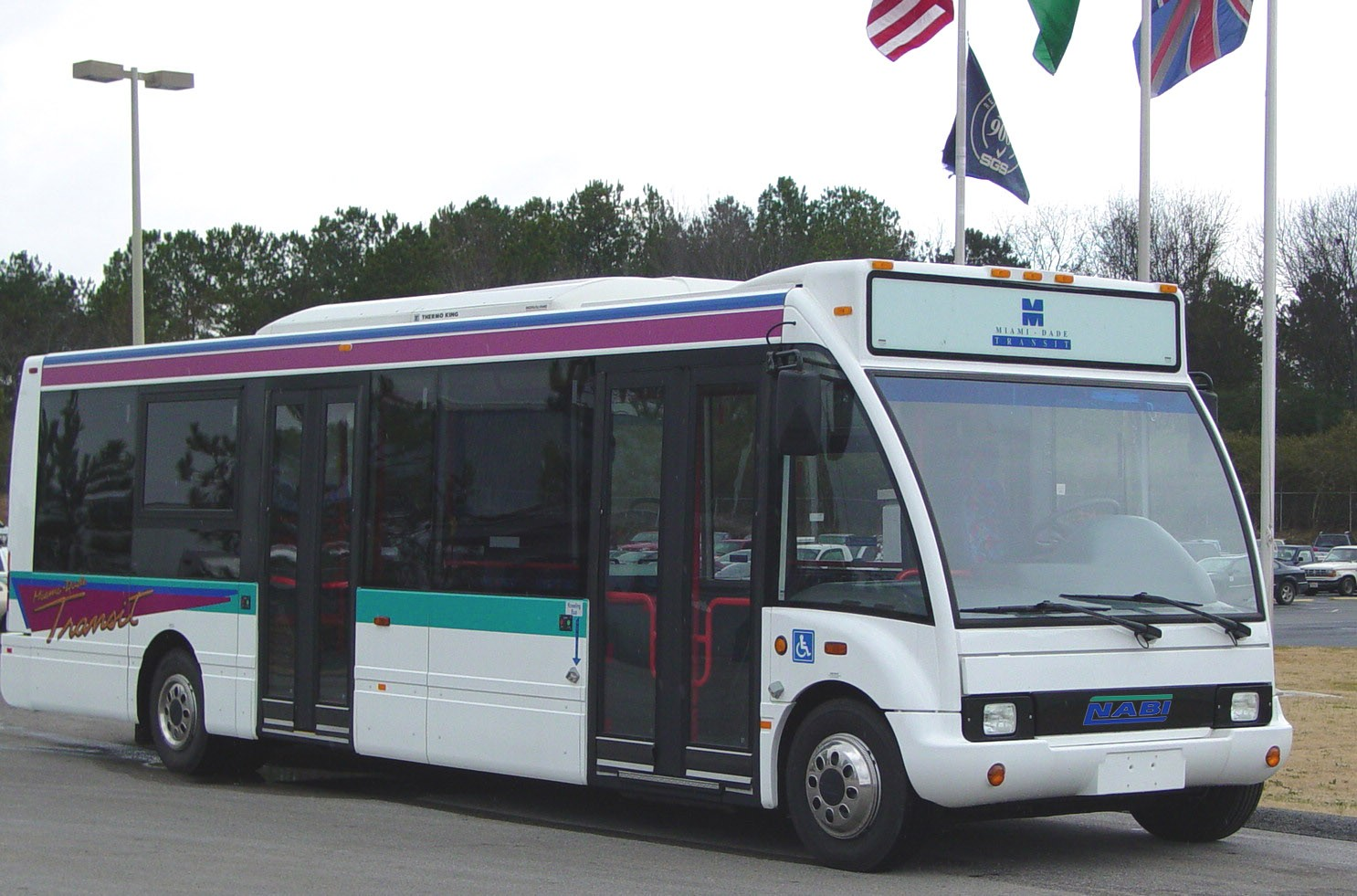 NABI 30LFN Bus